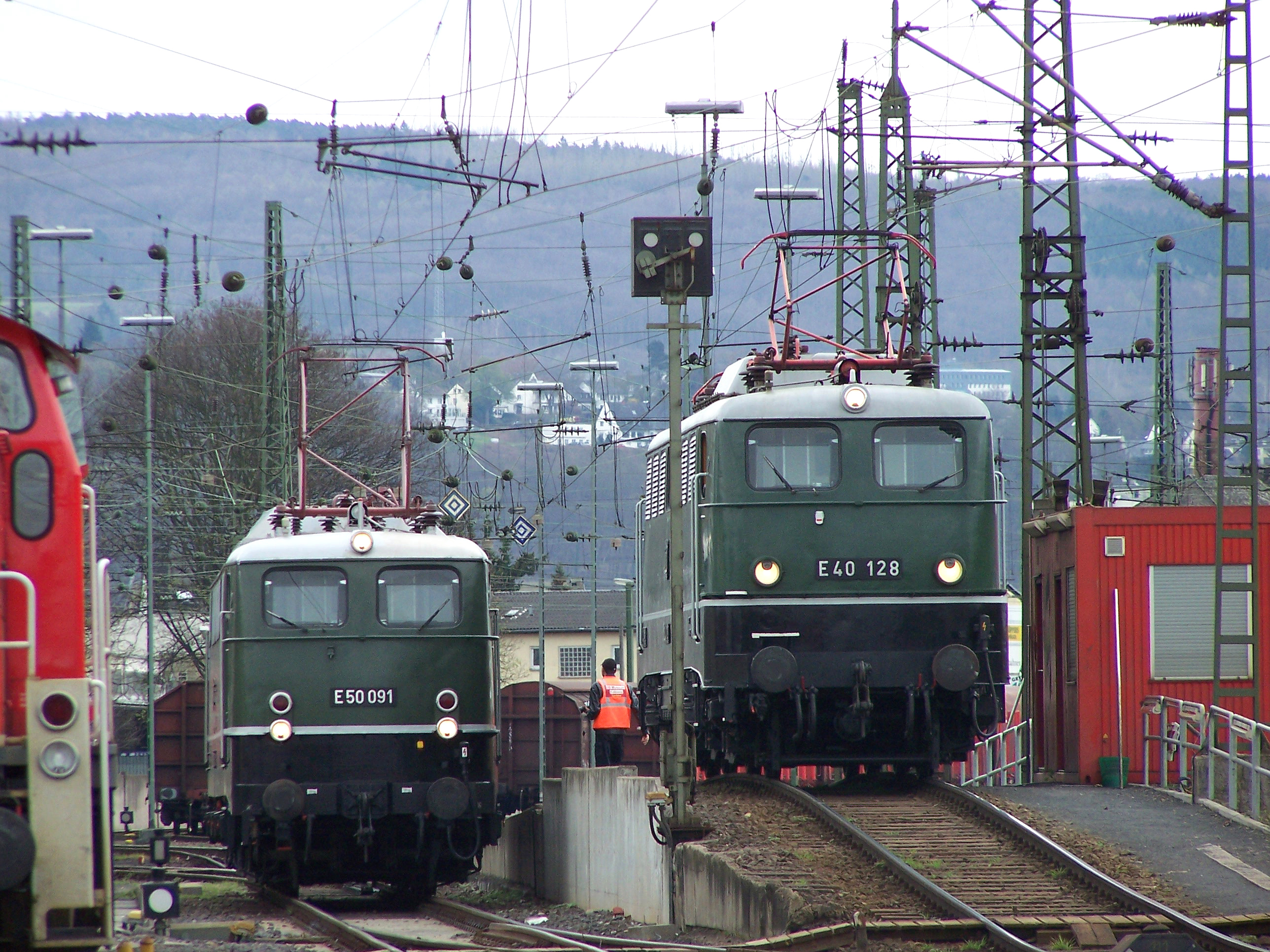 Electric locomotive E 40 128 and electric locomotive E 50 091 during a locomotive parade at the DB Museum Koblenz-Lützel, a local branch of the Nuremberg Transport Museum.